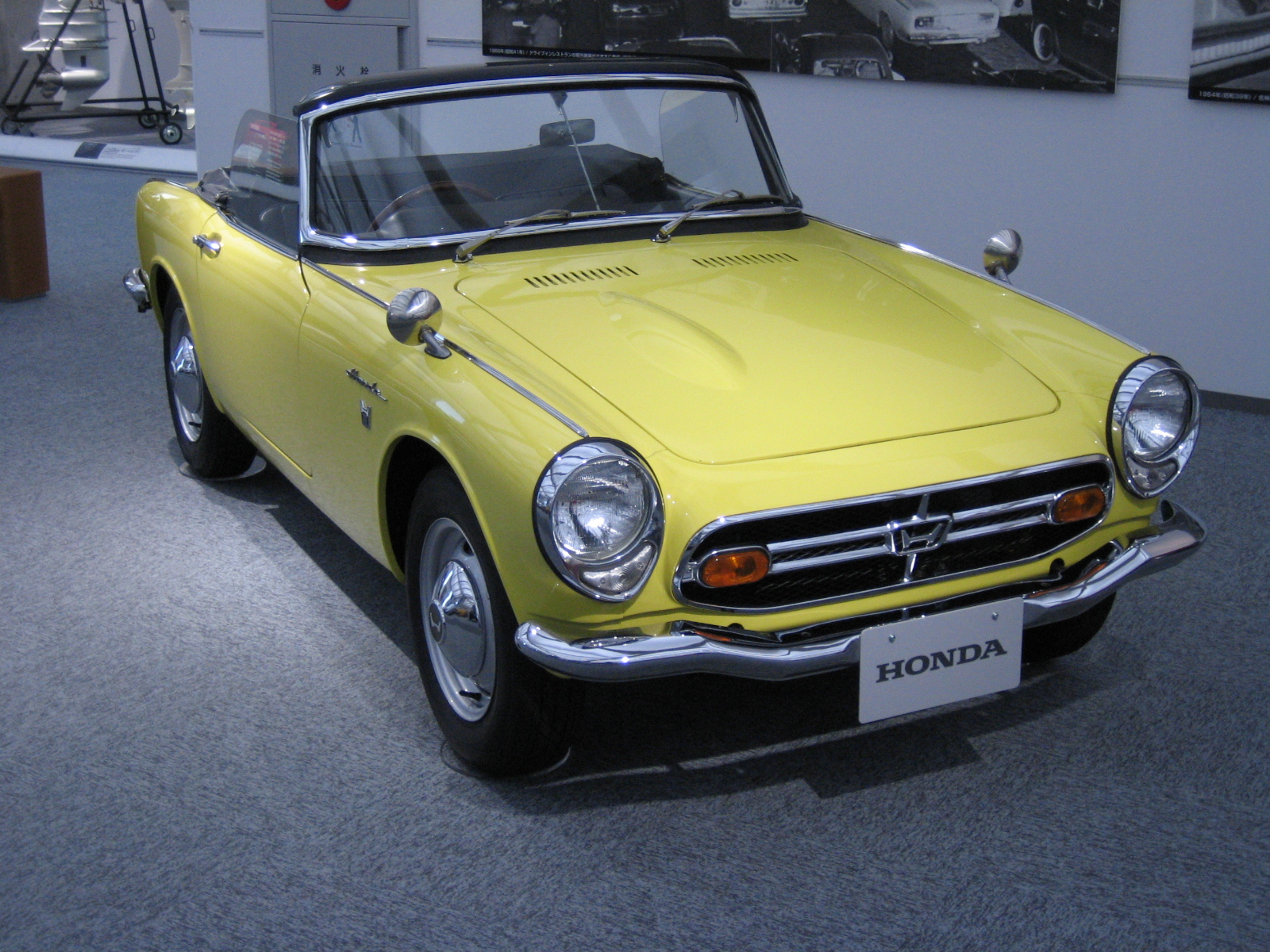 I photoed Honda S800 in the Honda collection hole.